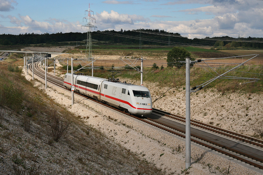 The ICE S on the Nuremberg-Ingolstadt high-speed rail line, near Wettstetten